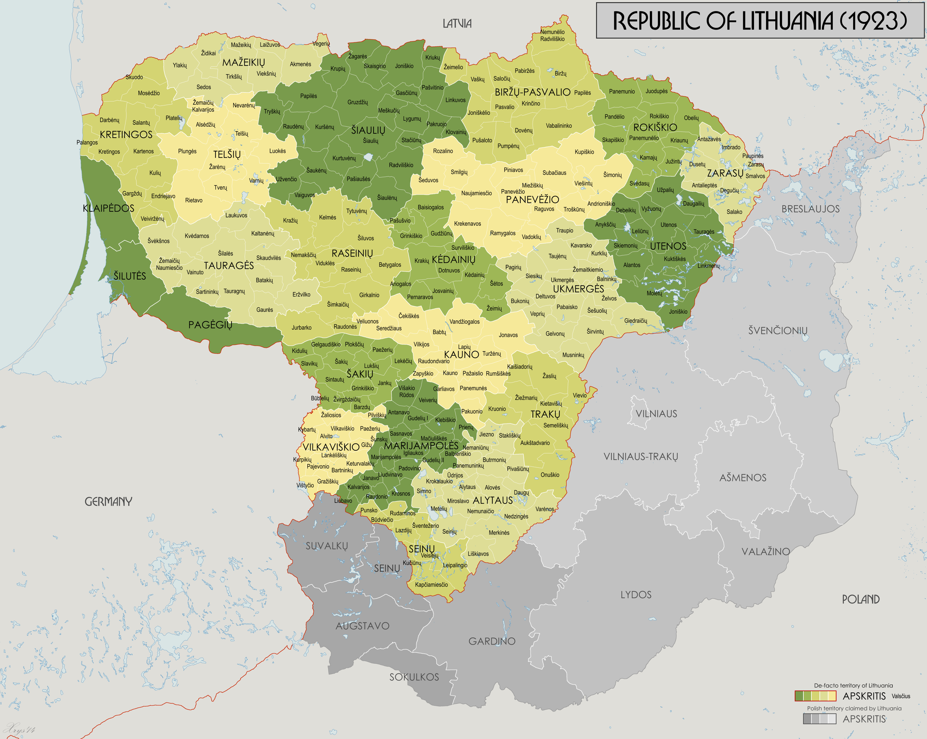 Administrative map of the counties and districts of the Republic of Lithuania 1918-1940. Source data: "Badan Spraw Narodowosciowych" Jan 1919 (1:750k) courtesy of maps4u.lt. "Mapa Administracyjna Rzeczypospolitej Polskiej" (1:300k) courtesy of .